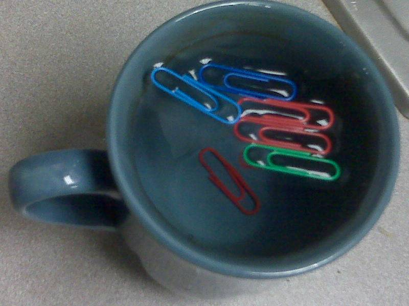 Five paperclips supported on the surface of water by surface tension and cling to each other. The red paperclip at the bottom of the picture has sunk to the bottom of the cup when placed by itself.